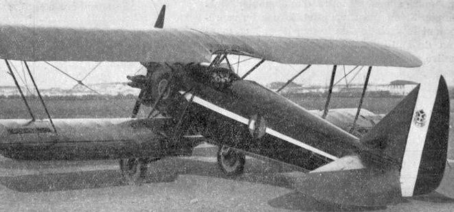 Breda Ba.19 photo from L'Aerophile February 1931